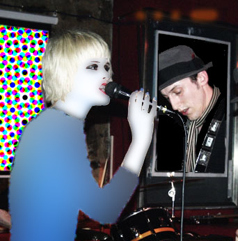 self-created